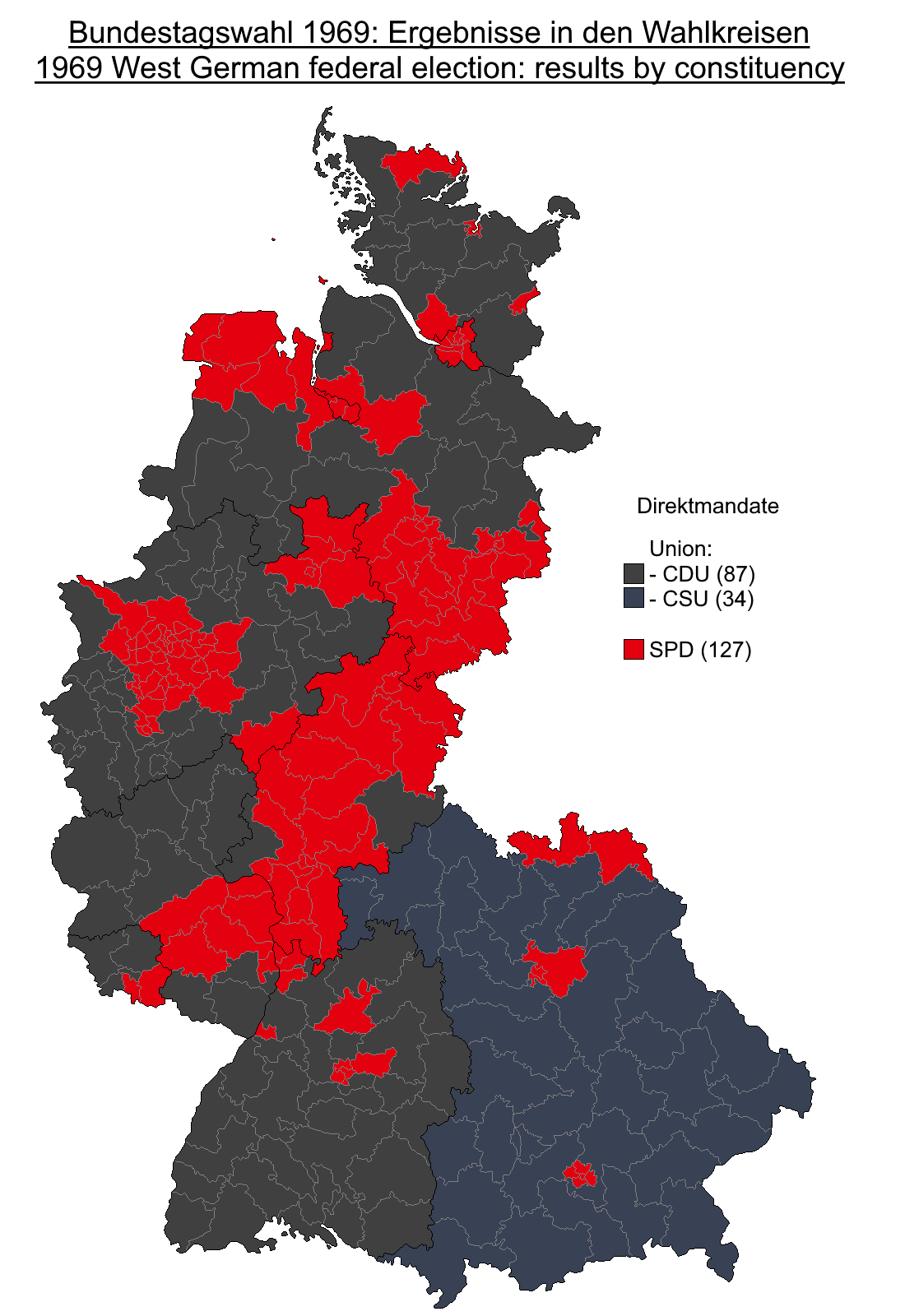 Results of the (West) German federal elections of 1969, showing direct seats won by party